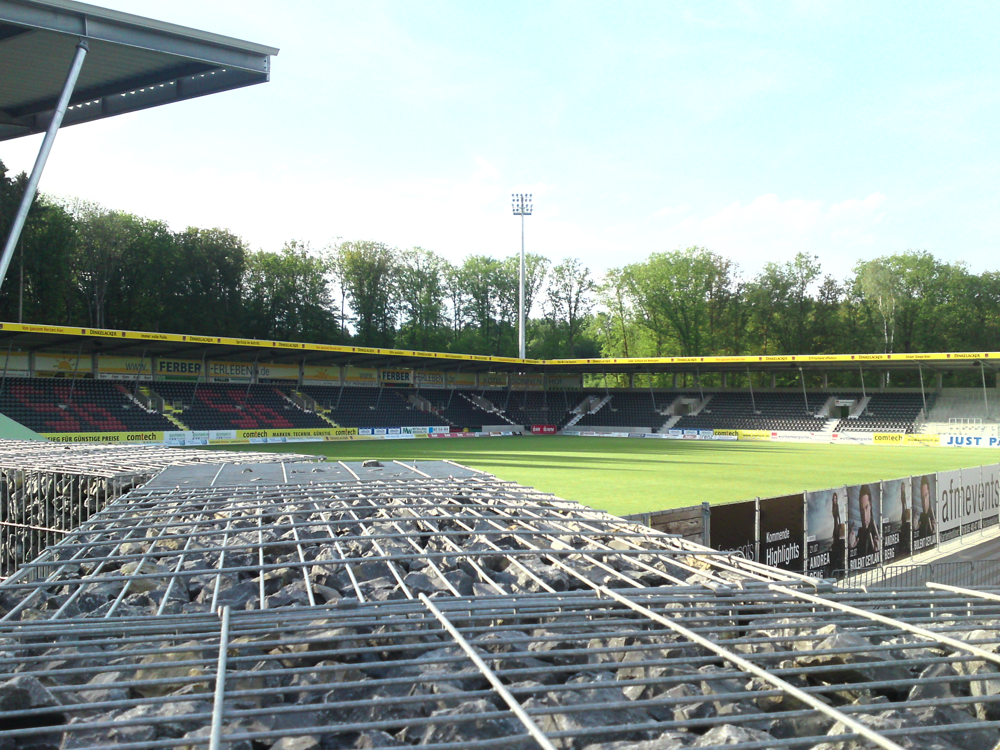 Comtech Arena in Großaspach, home ground SG Sonnenhof Großaspach